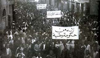 April 8th 1938 protests in Rue des Maltais (Nowadays Rue Mongi Slim), Tunis, Tunisia.